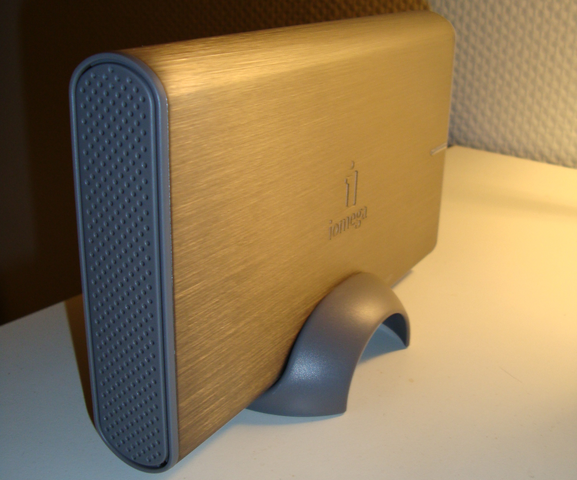 External hard drive from Iomega